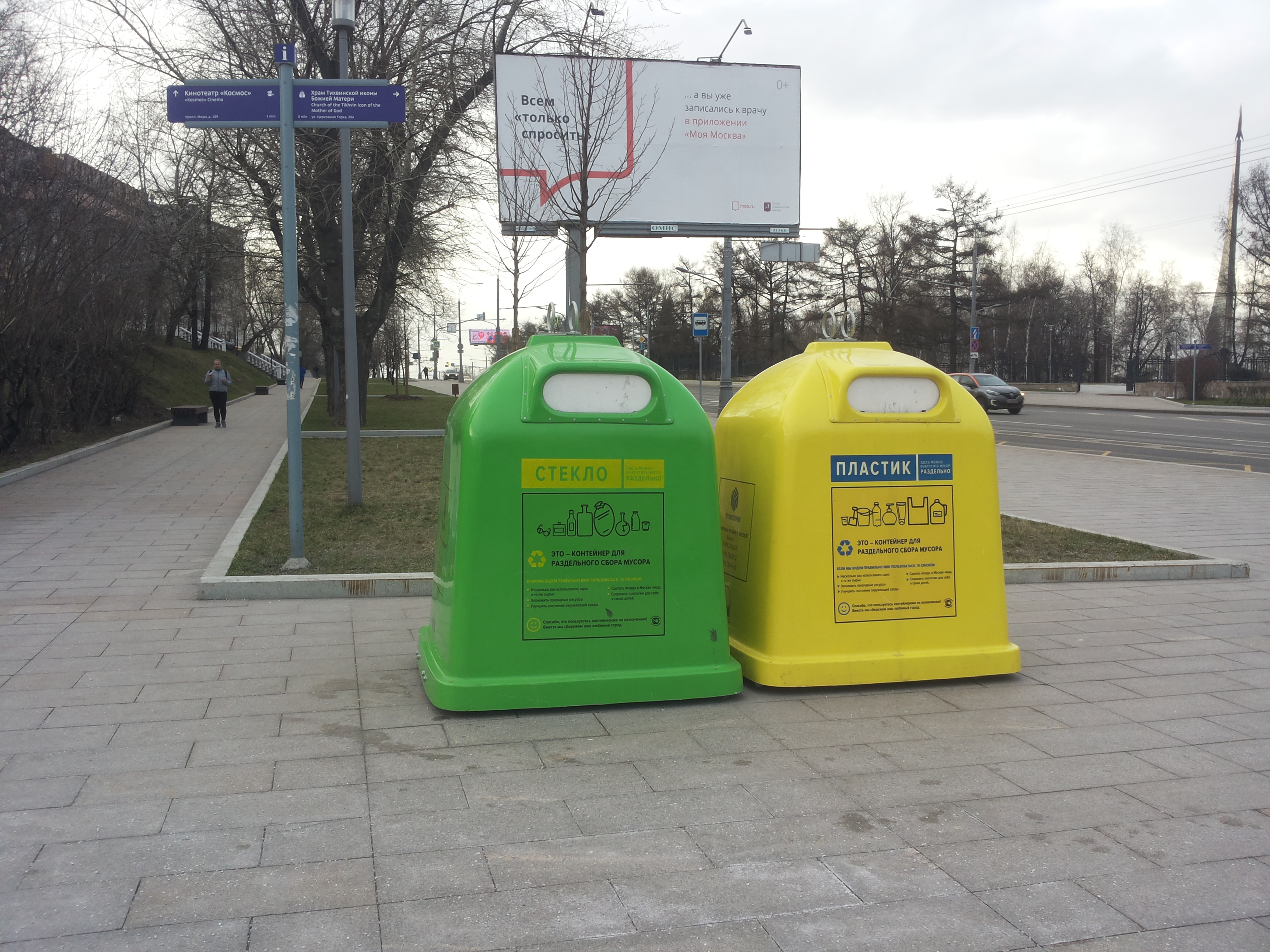 Separate waste dumpster, Moscow